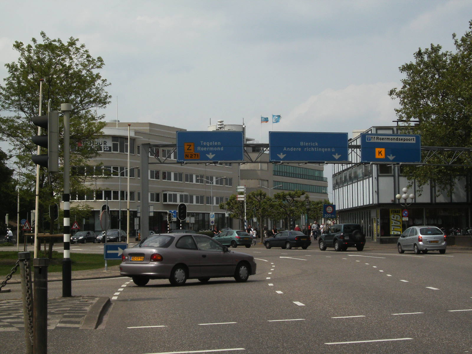 the dutch Rijksweg 271 (N271) in the centre of Venlo